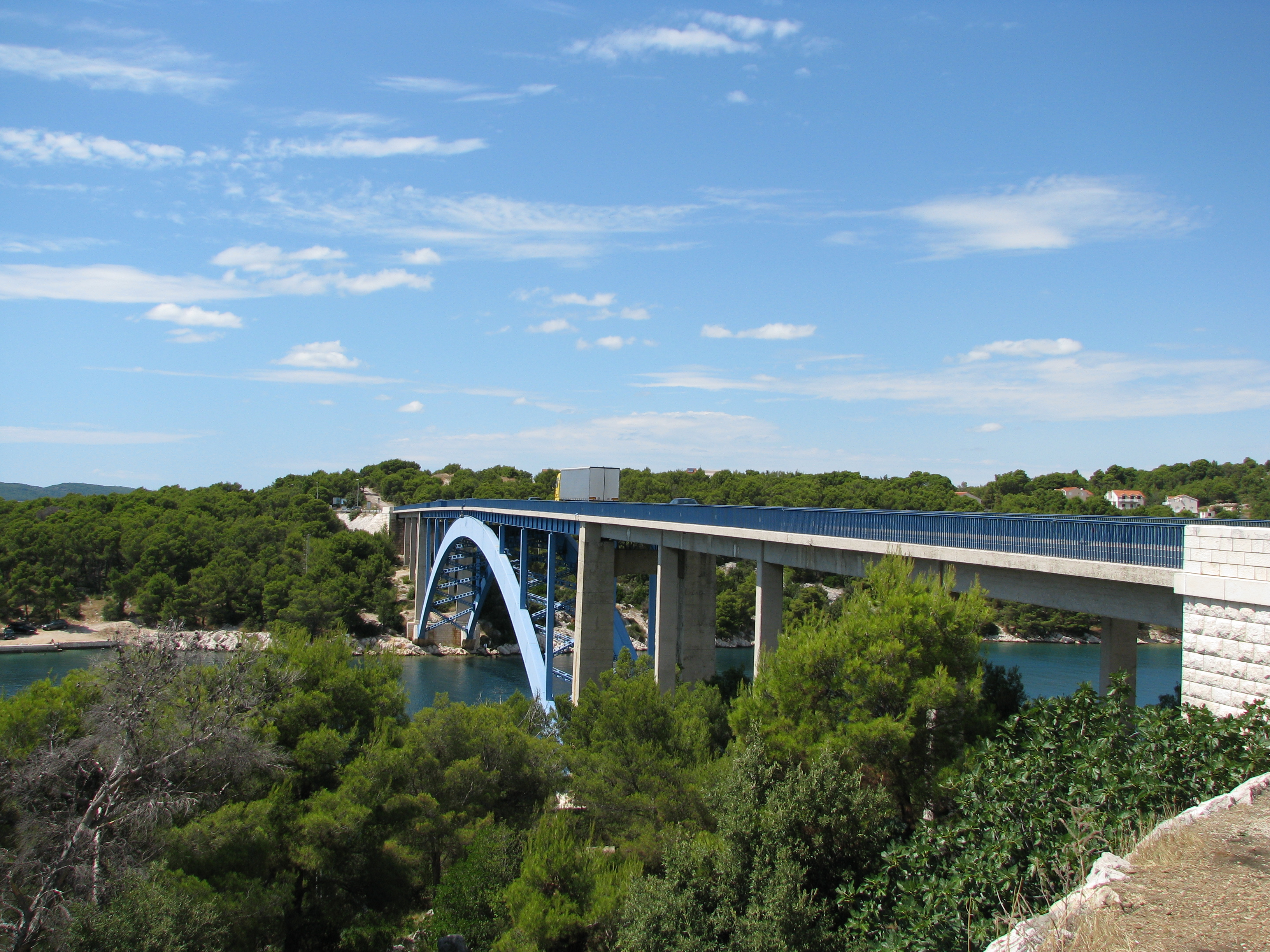 Morine Bridge near Šibenik, Croatia